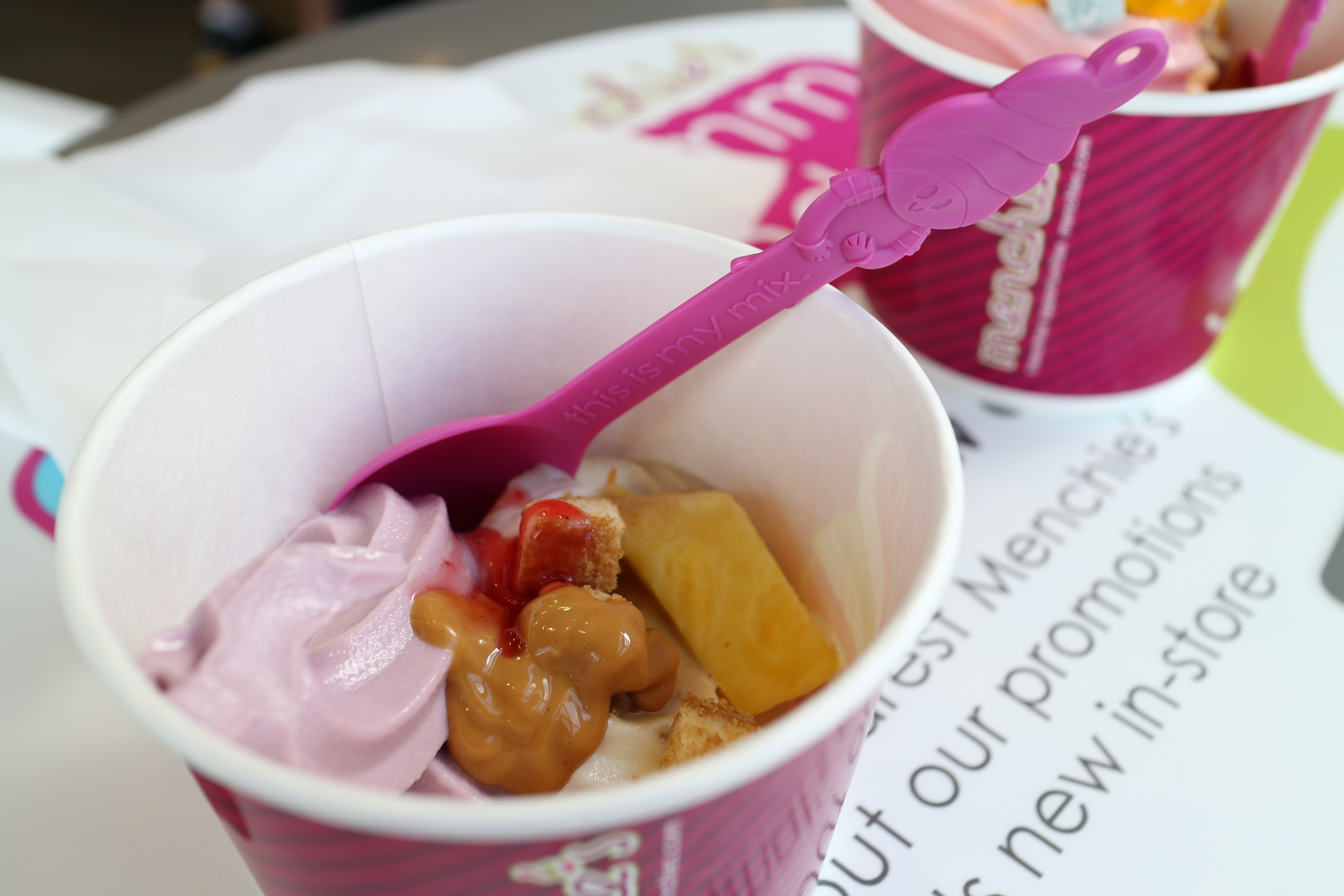 A cup of blueberry cheesecake and pina colada frozen yogurt at Menchie's, with a pink spoon.